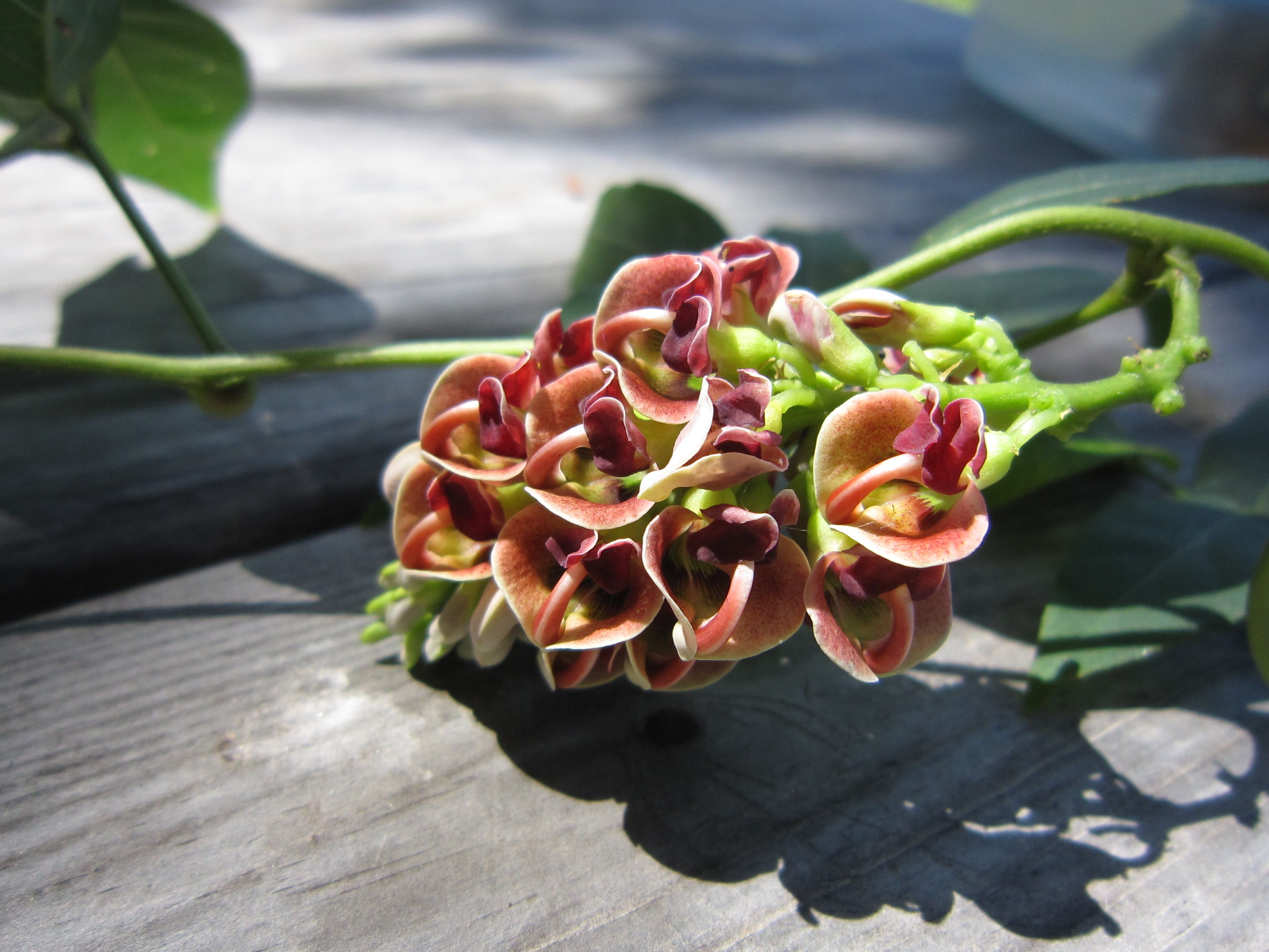 Specimen of Apios americana from Deerfield, western Massachusetts.